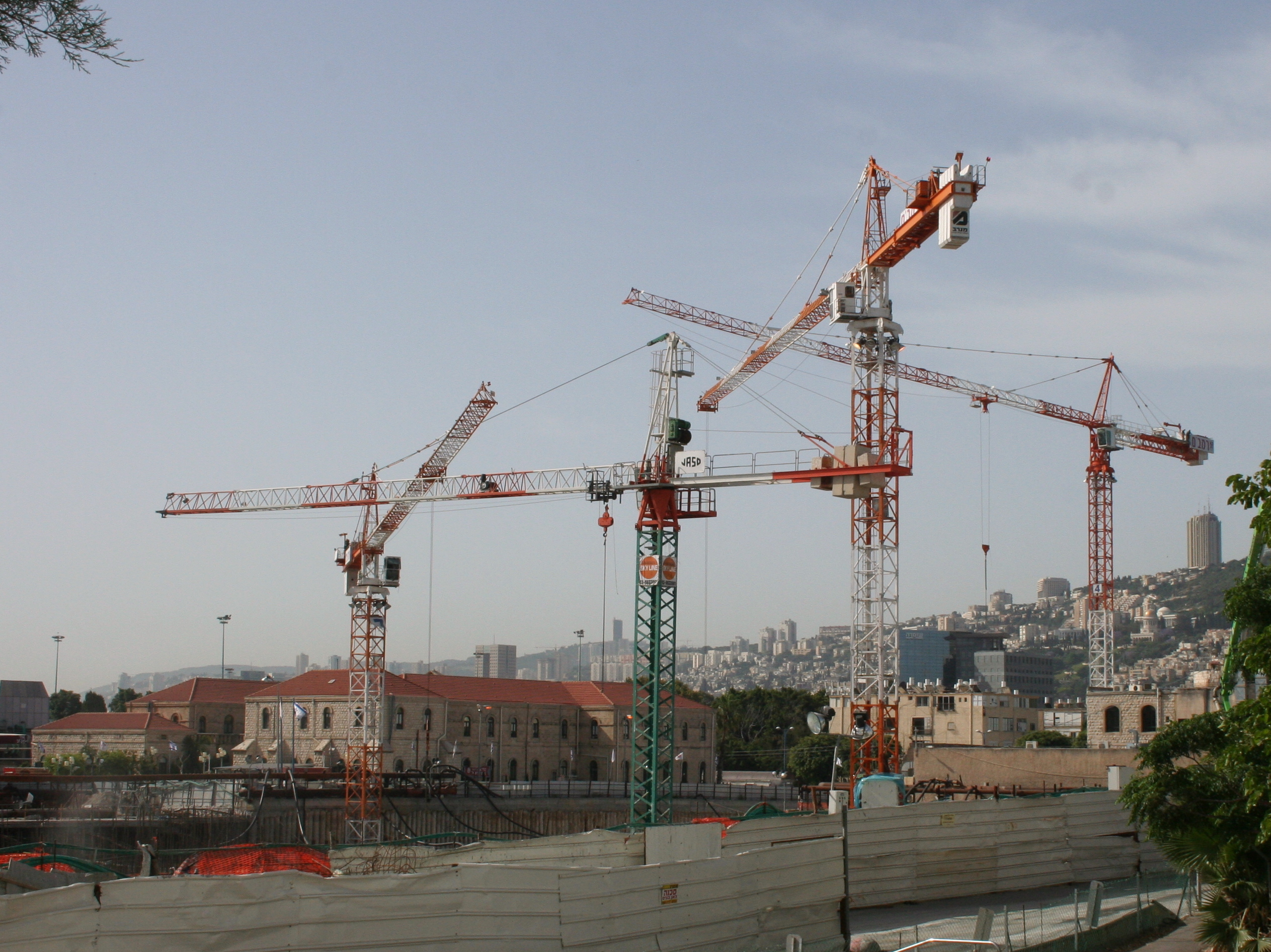 Rambam Medical Center, Haifa.